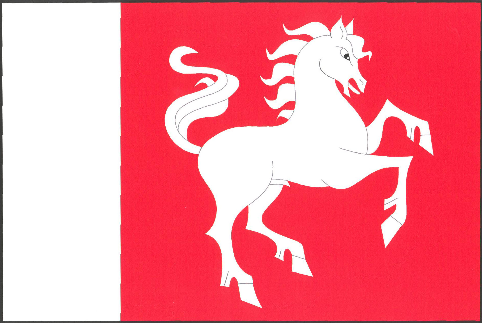 Official Flag of the Polen municipality